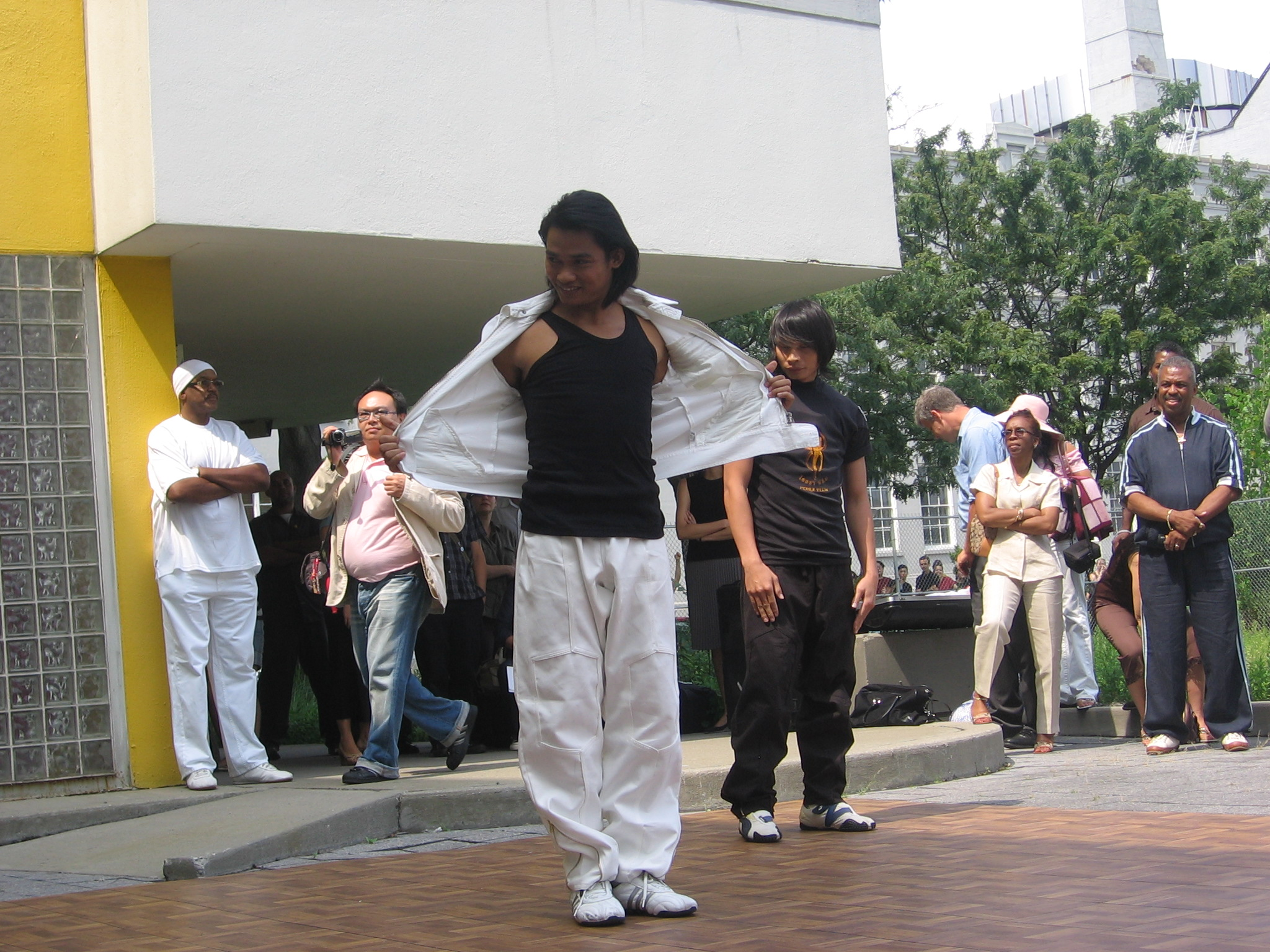 Tony Jaa, Martial Arts demonstration @ The Museum of the Moving Image, Astoria, Queens, NYC 8/20/06